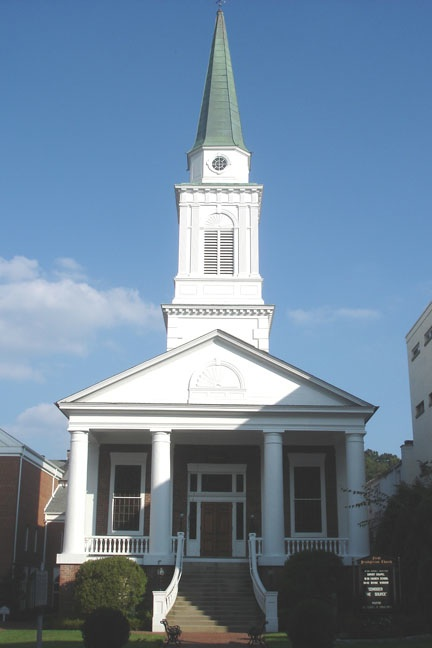 First gathered by Scots-Irish immigrants in 1780, First Presbyterian Church in Greeneville is one of the oldest churches in the state of Tennessee, and the oldest church in the town of Greeneville